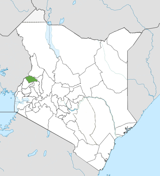 Location of Trans-Nzoia County